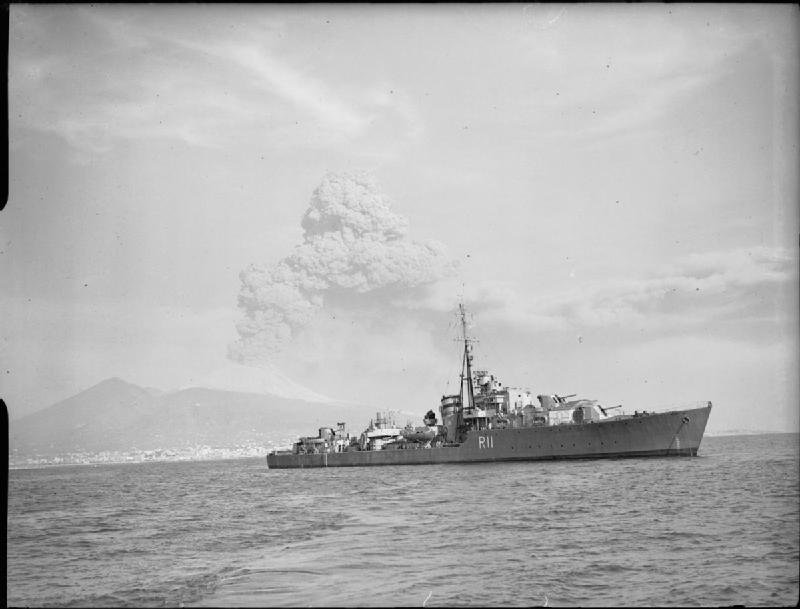 The Royal Navy during the Second World War Vesuvius in eruption forms a striking background to this study of the Troubridge Class destroyer HMS TUMULT. She is adopted by Rowley Regis, Staffordshire.